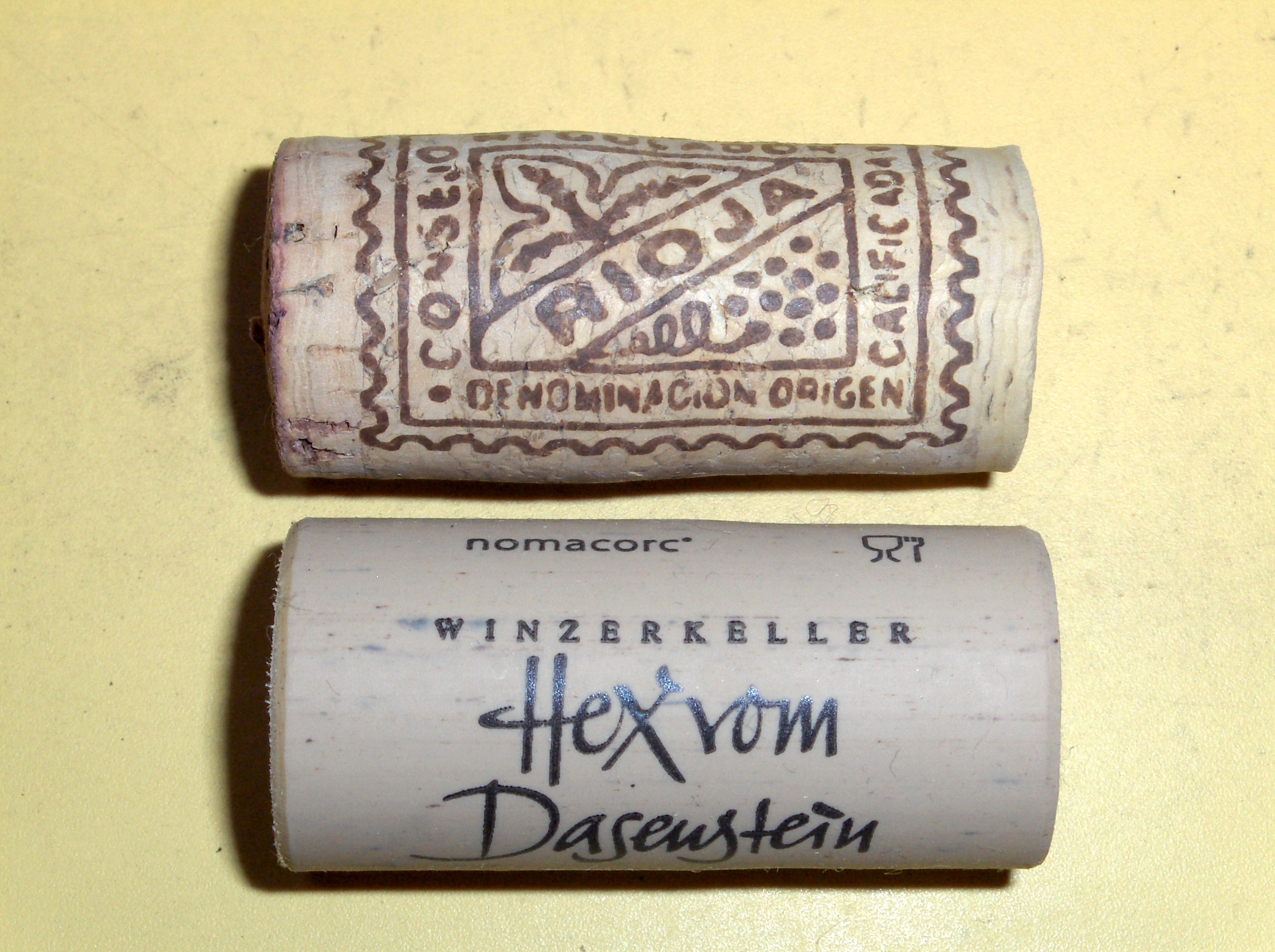 Brand on the stoppers (corks) of bottles of wine